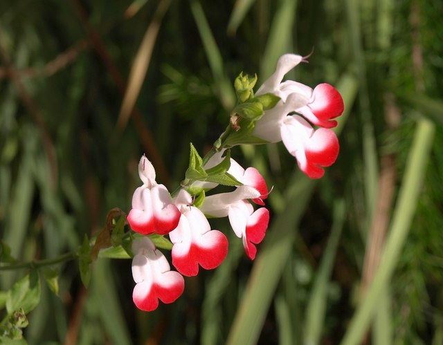 Salvia Hot Lips, Upton House This showy bloom is in the wall border of the terrace above the kitchen garden.